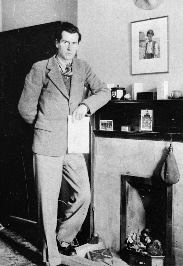 Marshall McLuhan at Cambridge University.